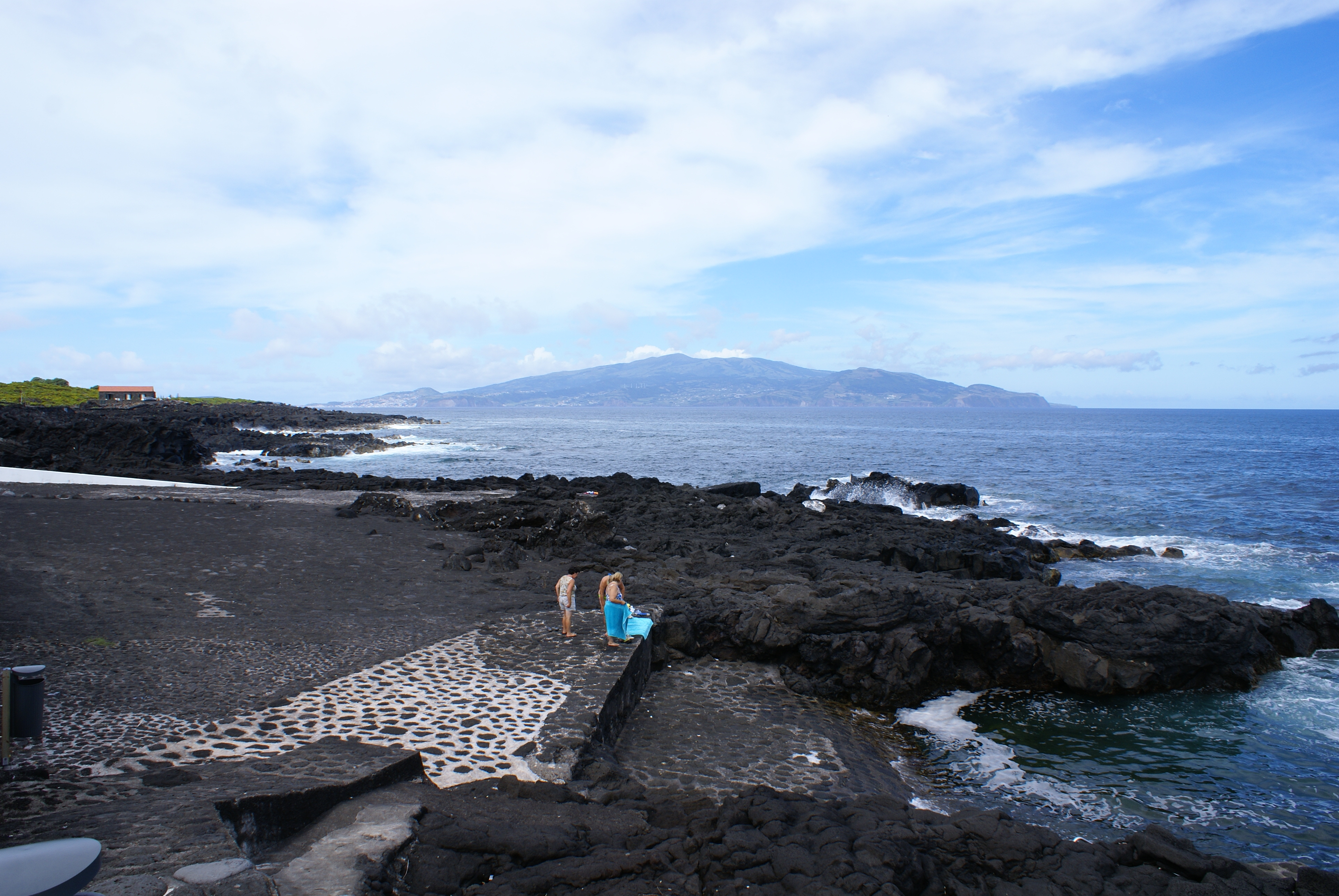 Cais do Mourato, um do acessos ao mar, Bandeiras, Madalena, Ilha do Pico, Açores